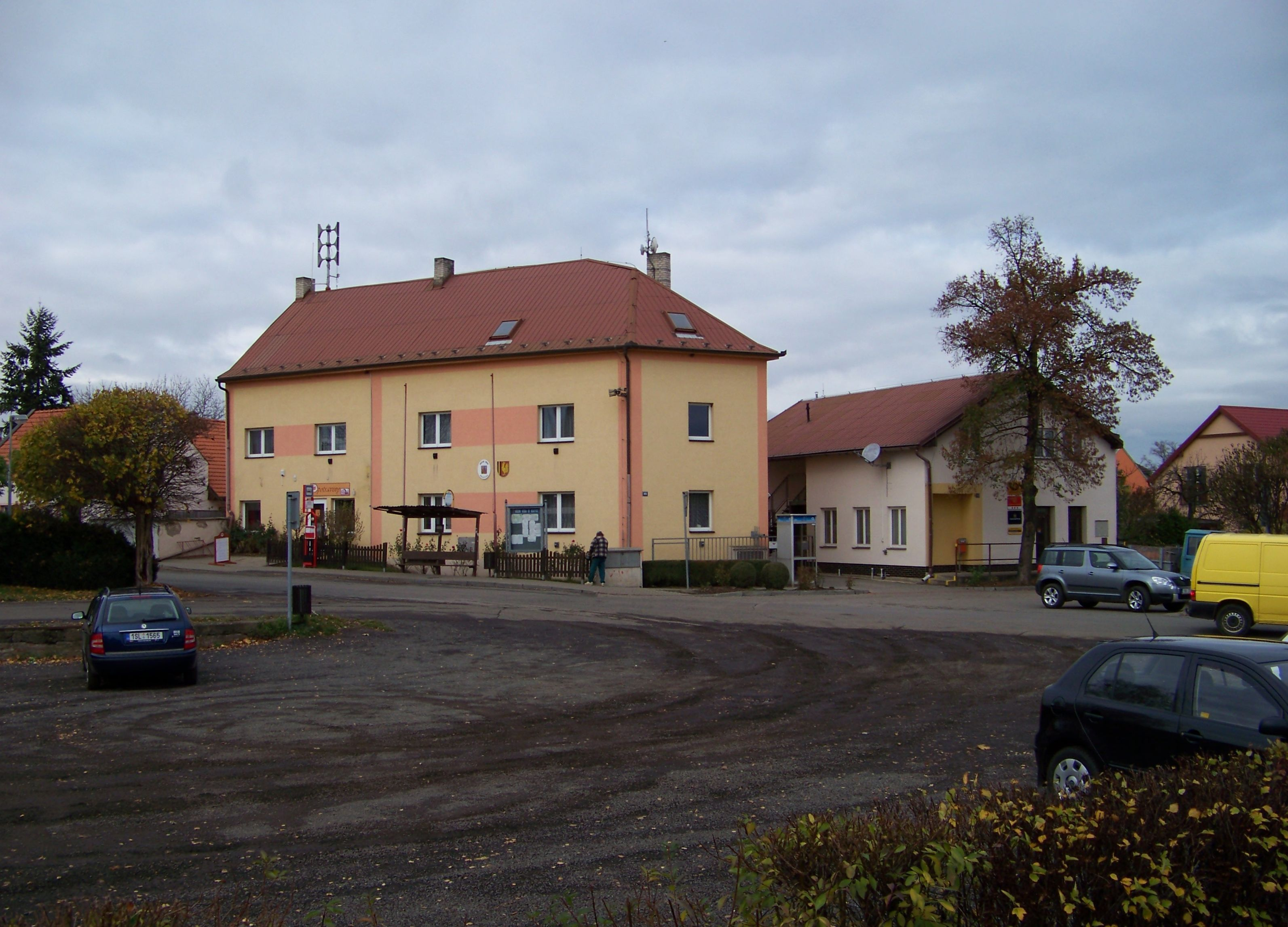 Kojetice, Mělník District, Central Bohemian Region, Czech Republic. Ke Kněžihorce street, a municipal office and a post office.